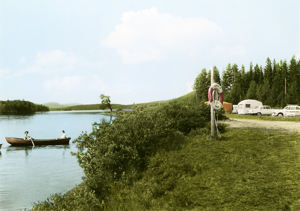 The camping ground by Ångermanälven river in Åsele, Lapland. Campingplatsen vid Ångermanälven i Åsele. Parish (socken): Åsele Province (landskap): Lappland Municipality (kommun): Åsele County (län): Västerbotten Photograph by: Unknown. Almquist & Cöster Date: 1950-1959 Format: Original postcard, tinted Persistent URL: Read more about the photo database (in english)